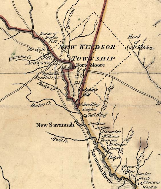 Central Savannah River detail from 'An accurate map of North and South Carolina . . . from actual surveys by Henry Mouzon and others', 1775. Library of Congress